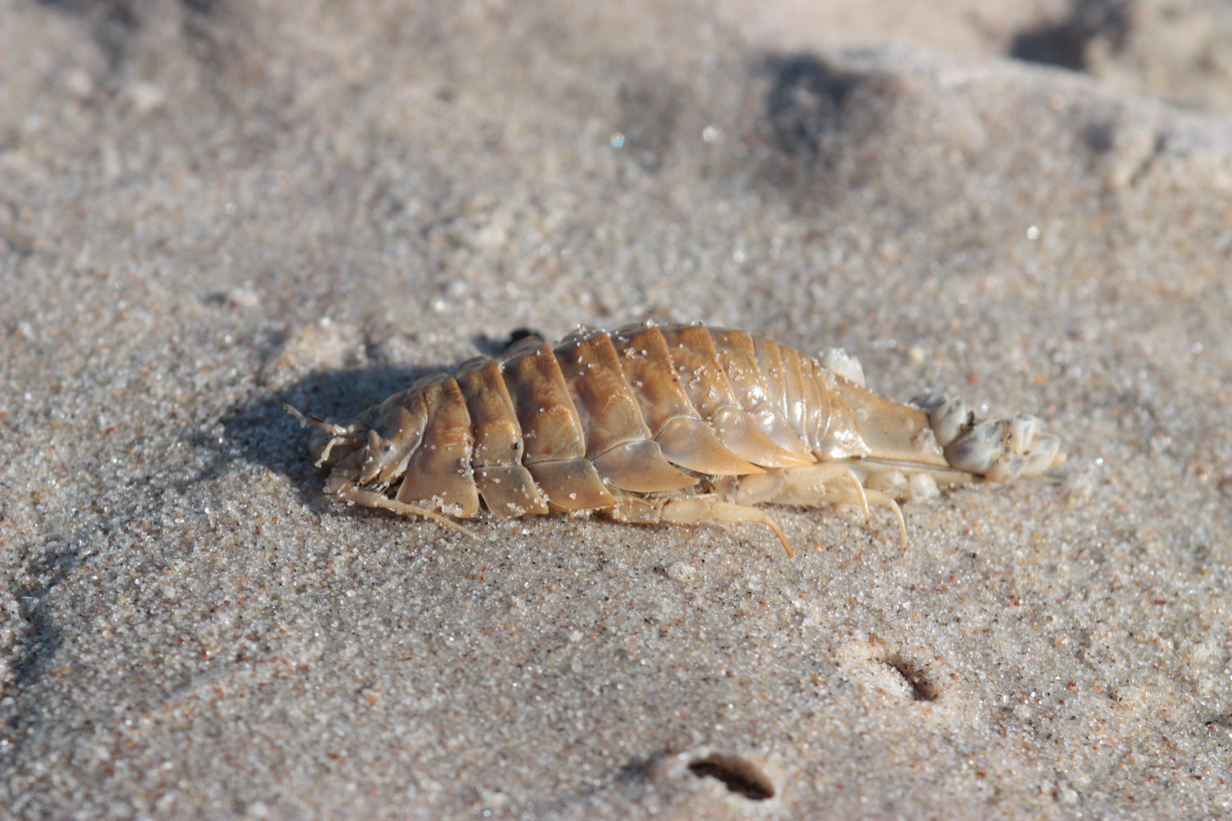 Saduria entomon on the beach. Baltic Sea.